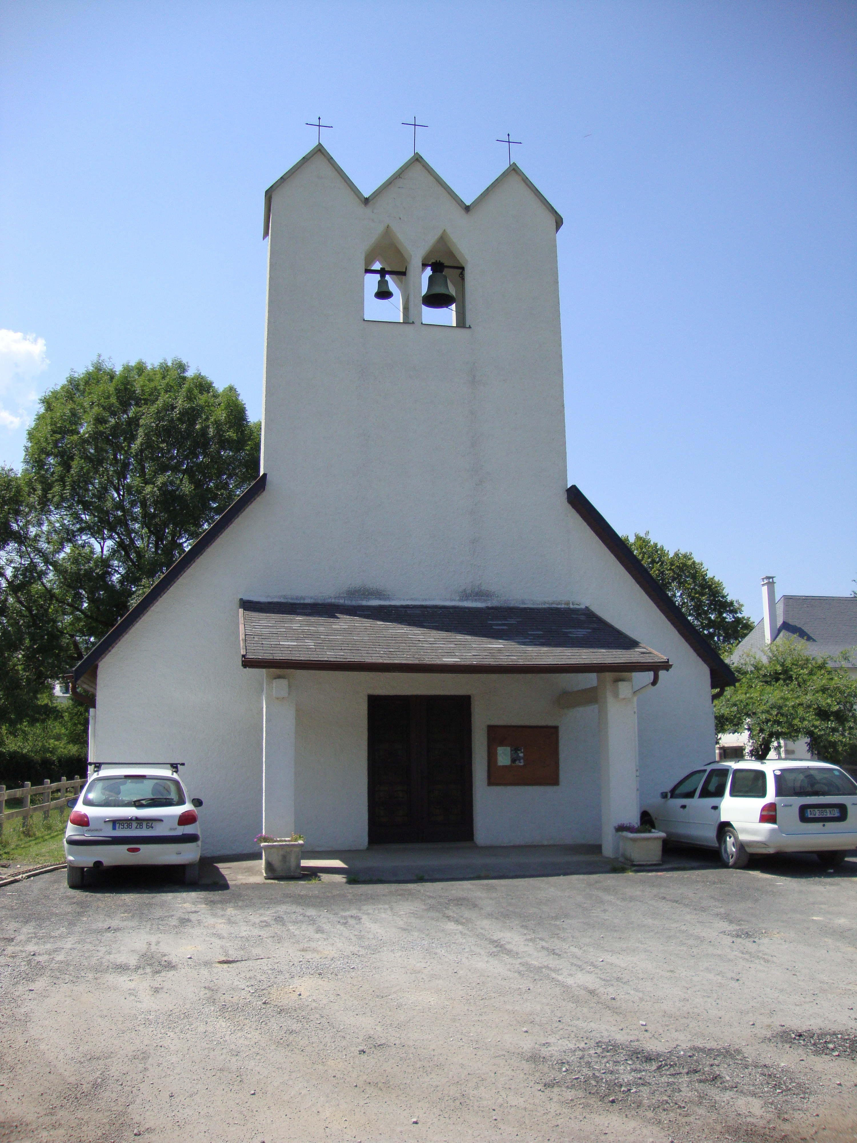 Abense-de-Haut (Alos-Sibas-Abense) trinitarian church